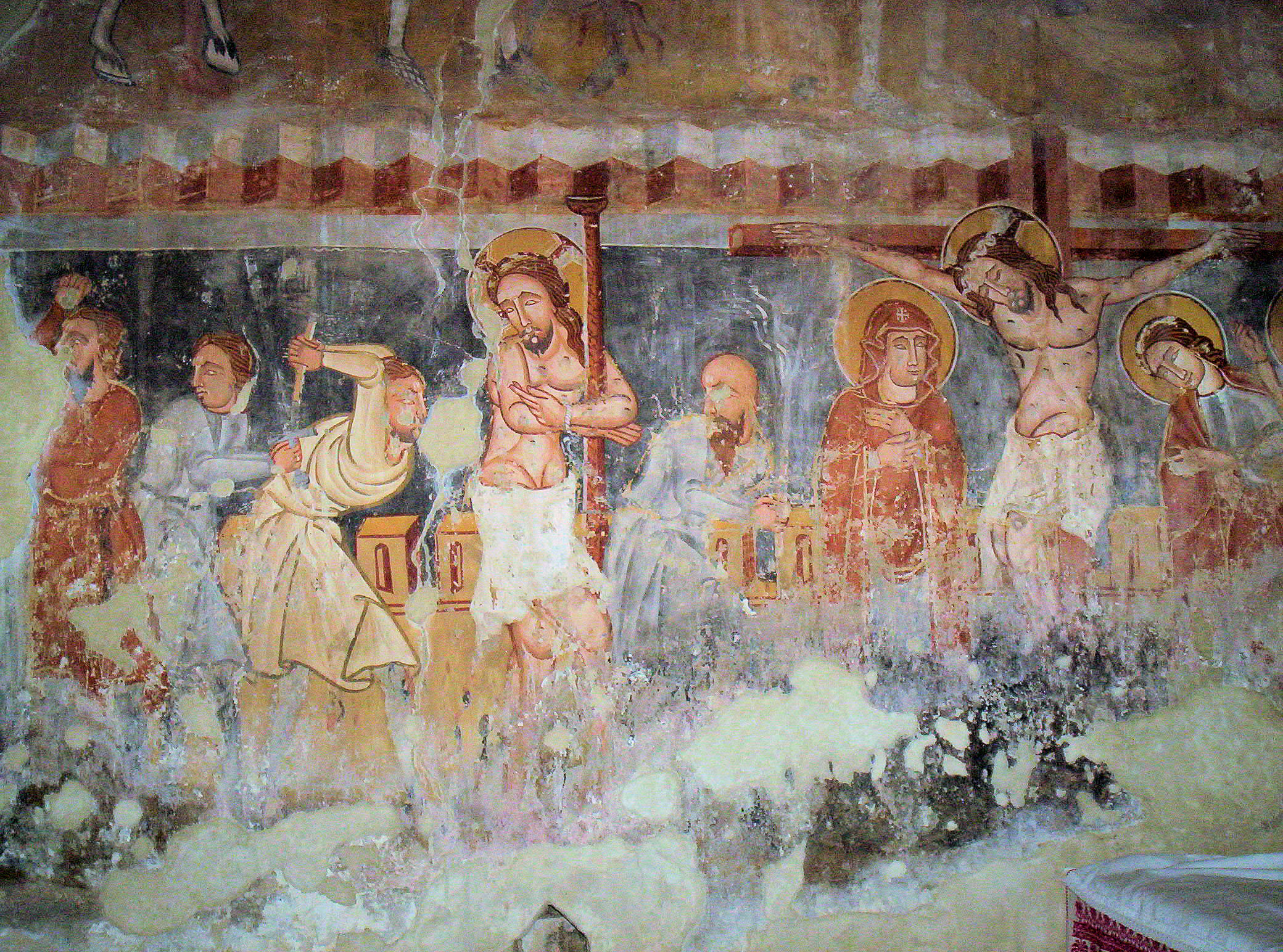 Freskó a gelencei Szent Imre-templomban. – photo taken by uploader User:Csanády in 2006.